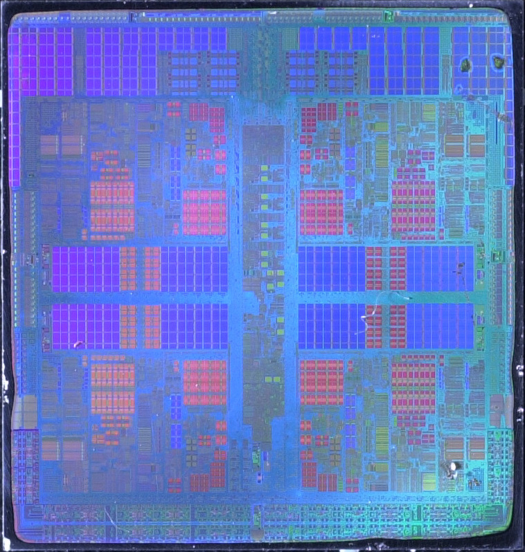 AMD Barcelona die shot